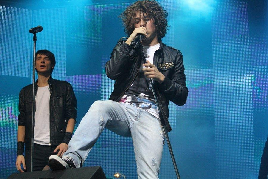 Bobi performing on the 2nd concert in Minsk